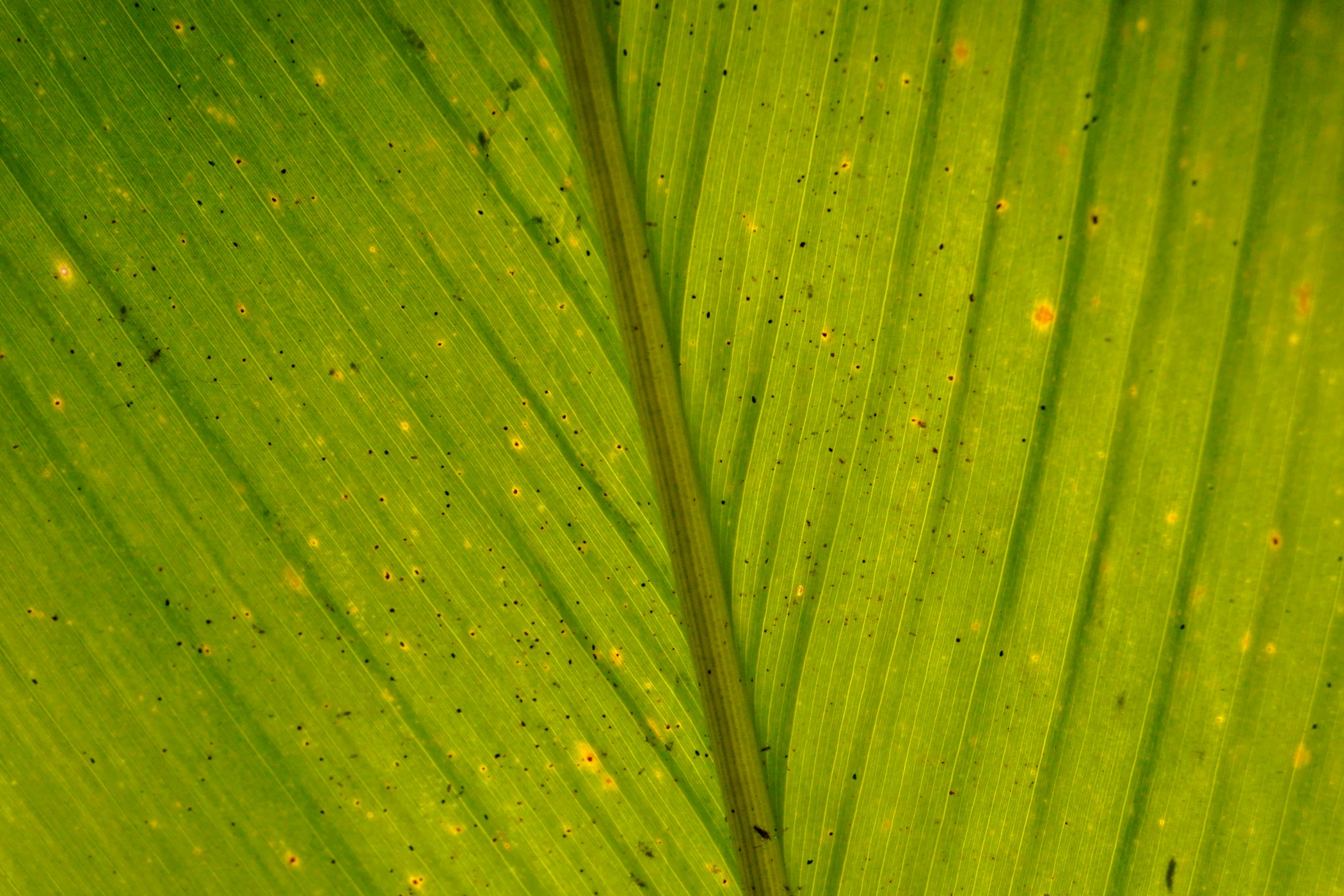 Leaves of Amomum dealbatum; architecture type: parallel. Bogor, West Java, Indonesia.